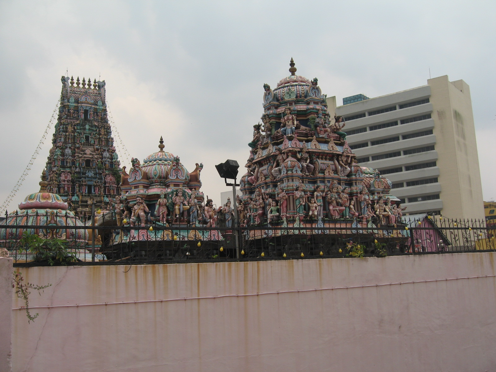 Johor Bahru Sri Mariamman Temple.